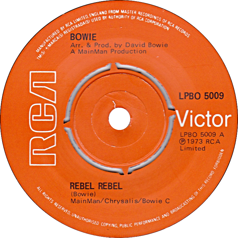 "Rebel Rebel" by David Bowie UK vinyl pressing According to Discogs and , this UK-manufactured product was issued in 1975. Also, according to the website and a forum discussion, the UK customers were given exports made in the US and France before this product. However, as of now, no sources defined as reliable can confirm this.